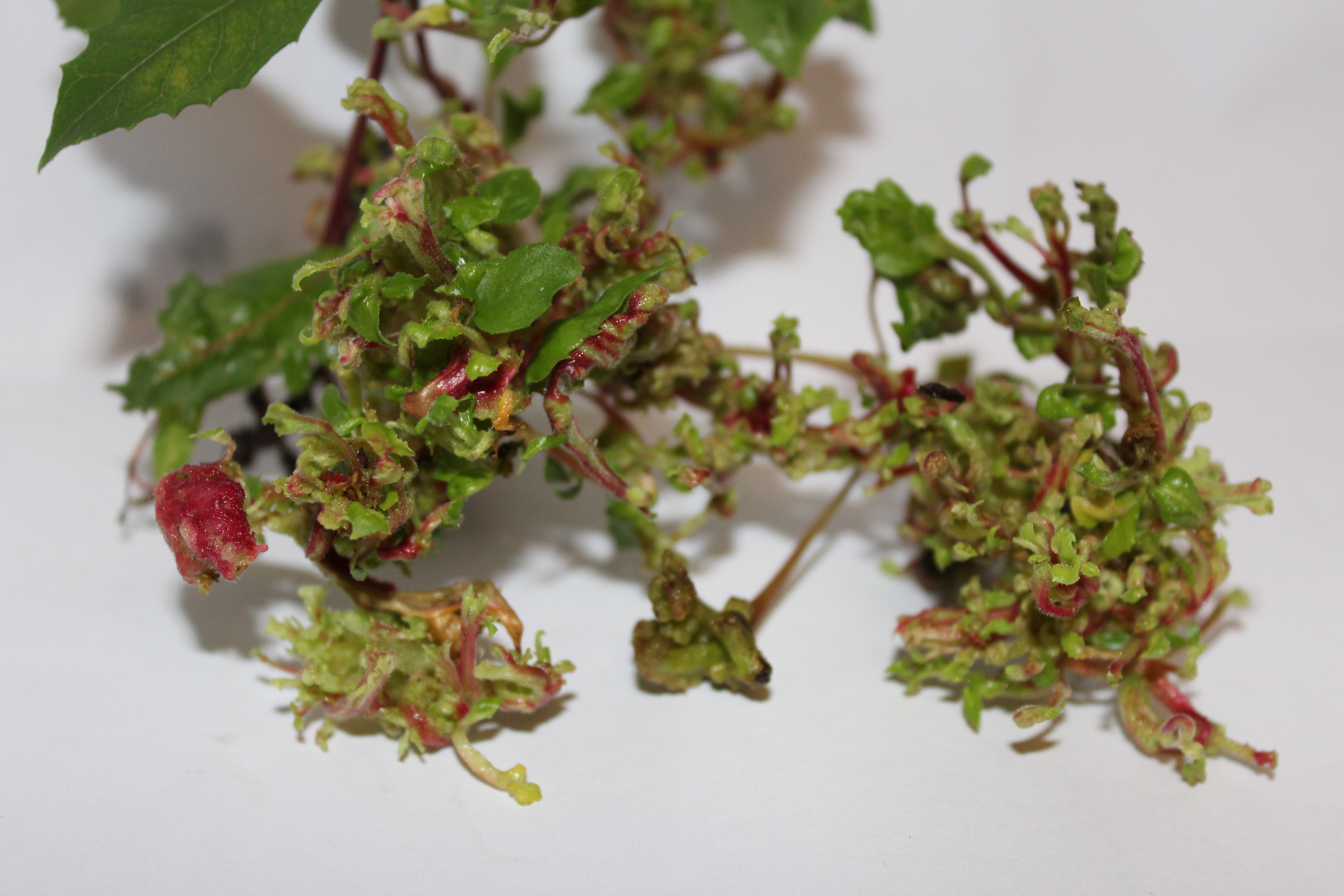 Close-up of Fuchsia stem with severe infestation of Aculops fuchsiae or fuchsia gall mite. Photo taken in London, England, on 26 October 2015.